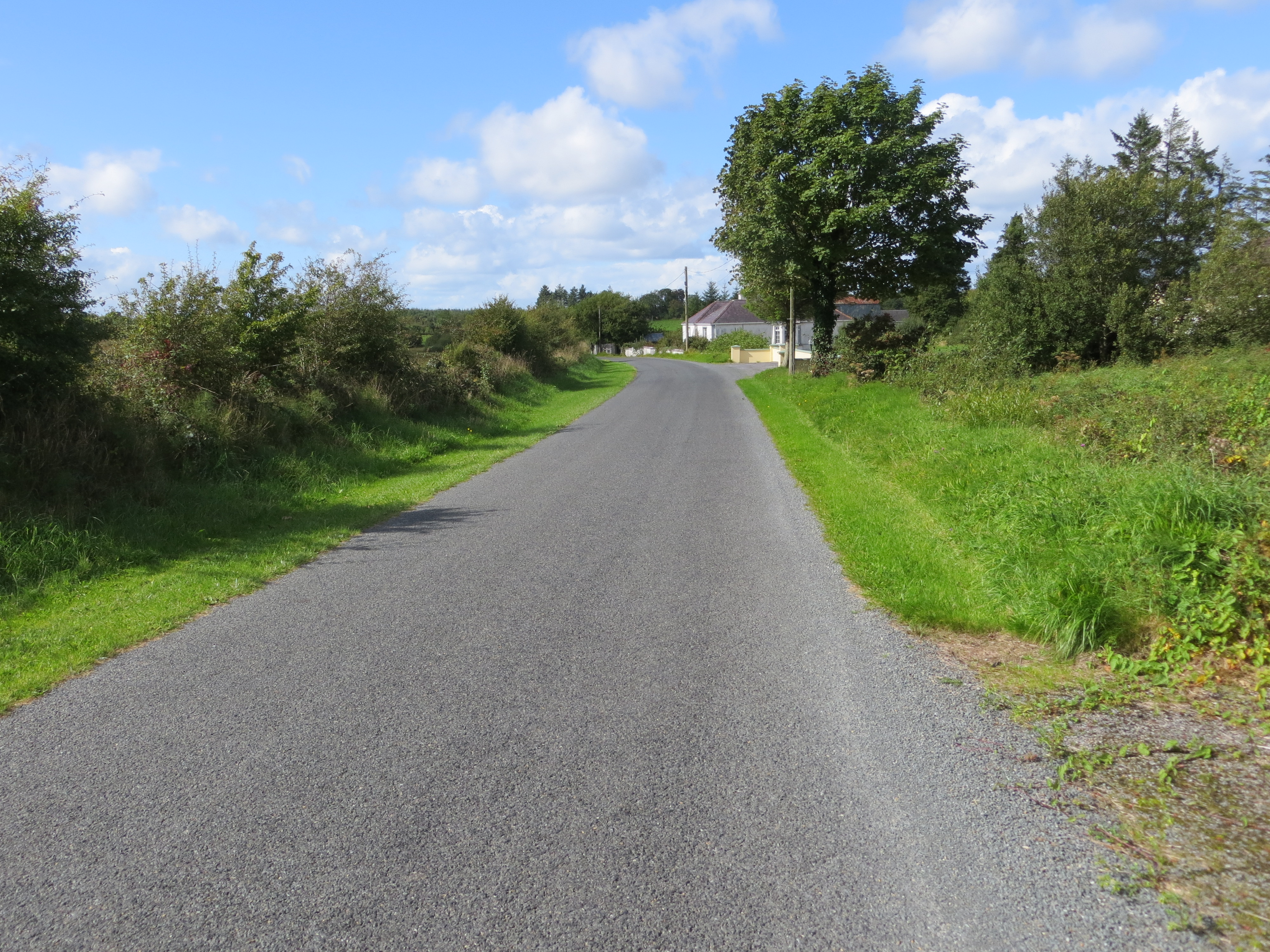 Hedge-lined lane near Cloonbonniff